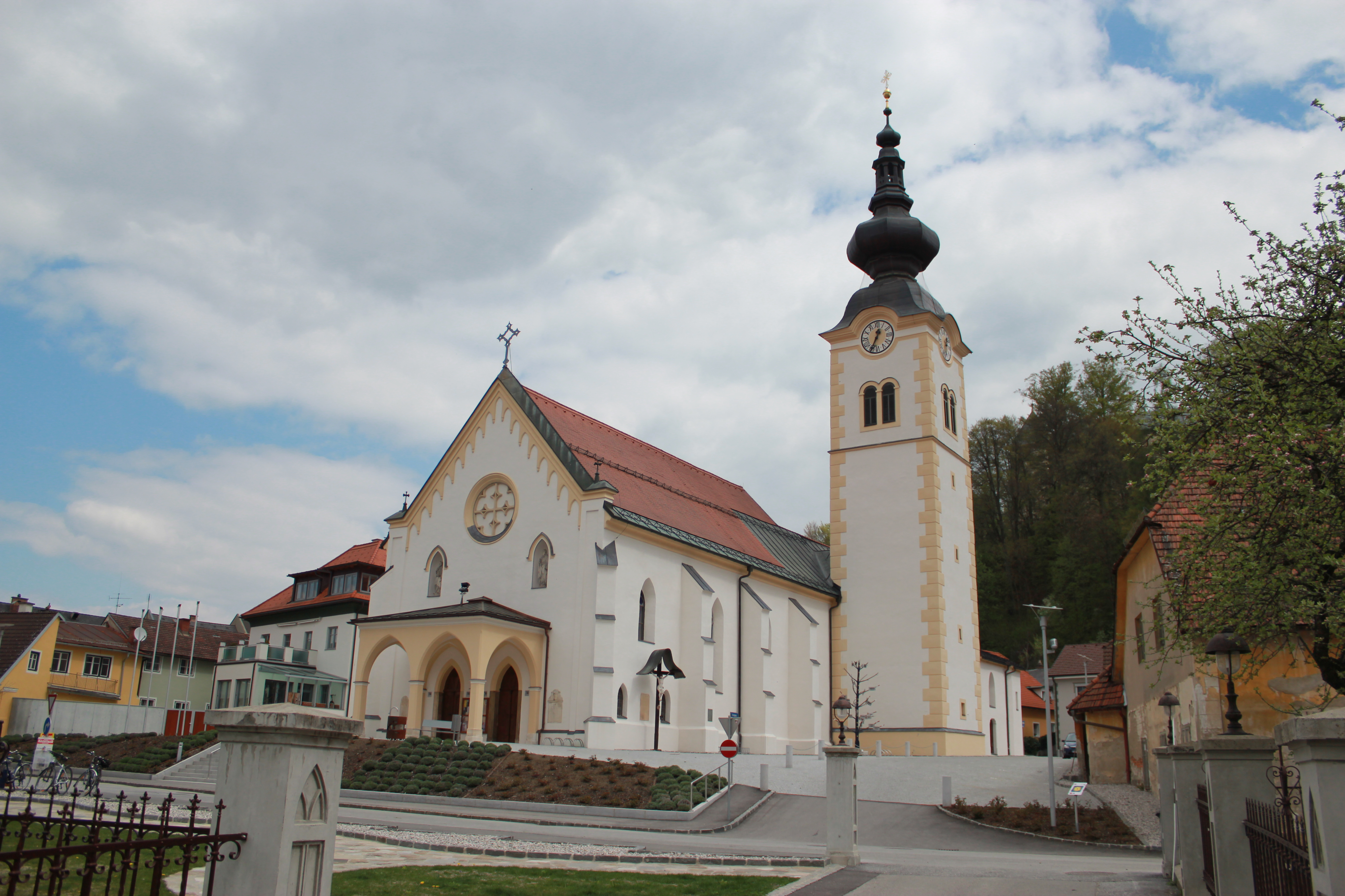 Parish church in Bleiburg